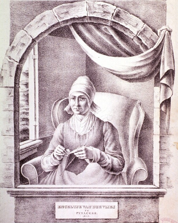 Engeltje van der Vlies who became a celebrity by pretending not to have used food or drink for years. Picture from 1827.